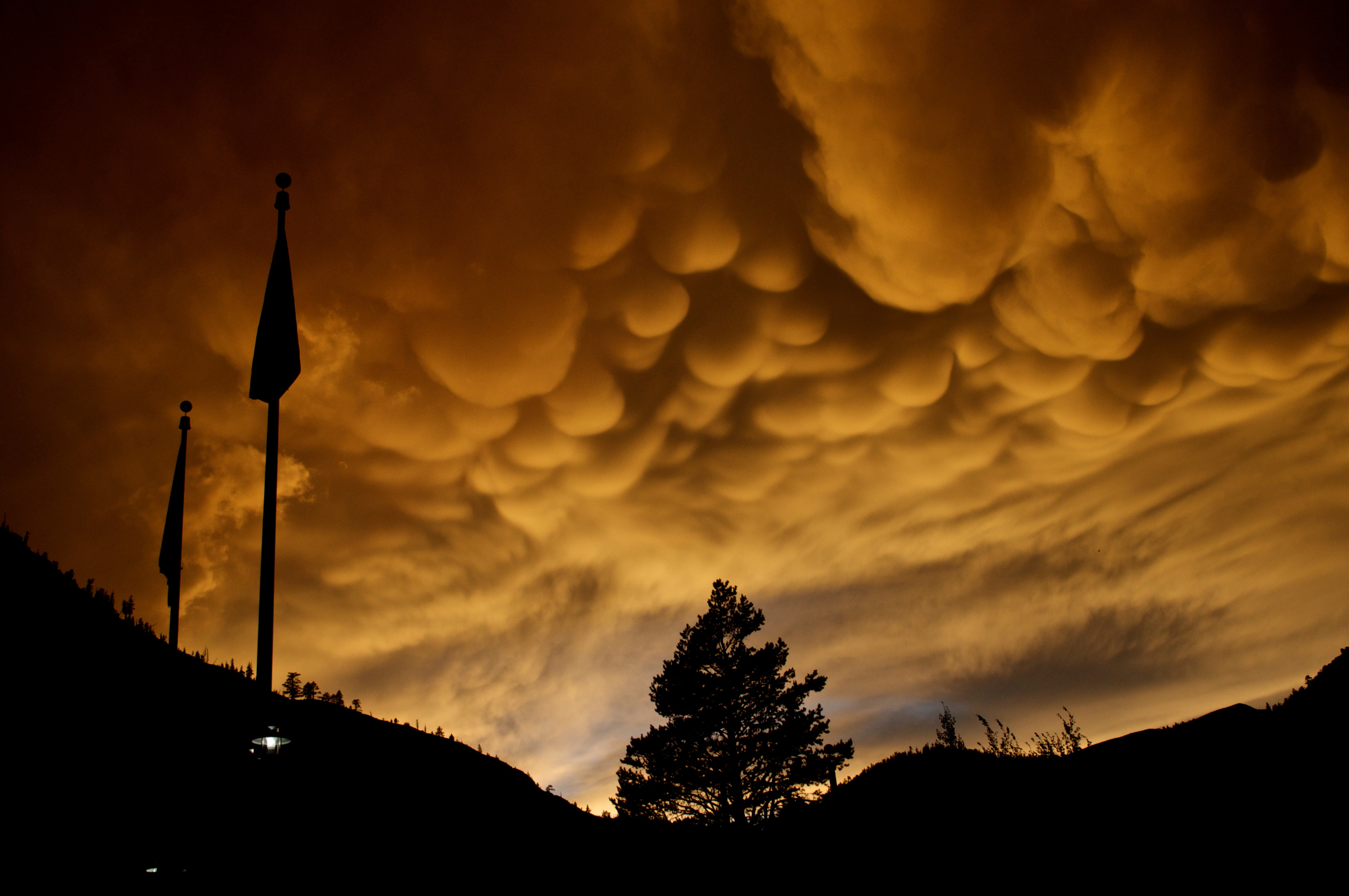 Mammatus clouds forming after thunderstorm at Squaw Valley ski resort.